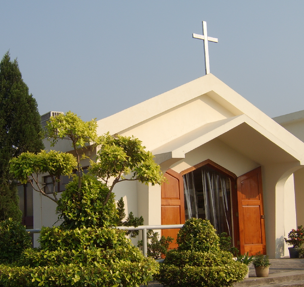 First Assembly of God Church Shek Kong Chapel 中文（香港）: 神召會禮拜堂石崗支堂